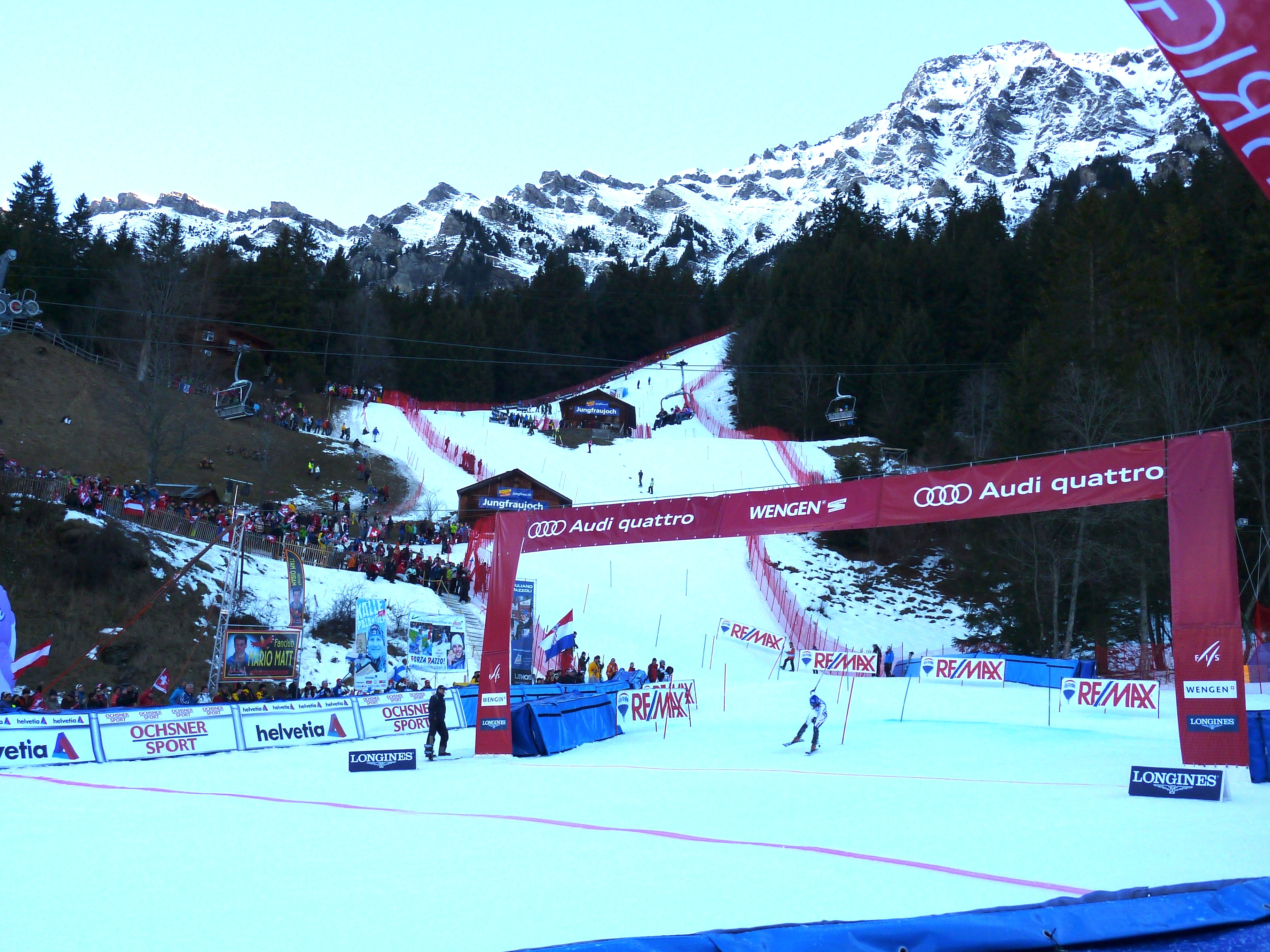 The "Maennlichen / Jungfrau" slalom slope at the 2011 Lauberhorn race in Wengen